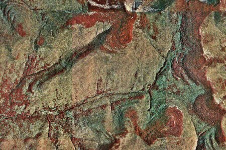 Aerial infrared view of Slide Mountain, from the New York State Geographic Information Systems Clearinghouse website, NAPP 1 Meter Resolution Imagery 1994 - 1999. Images originally made available to state from USGS, therefore they are public domain.